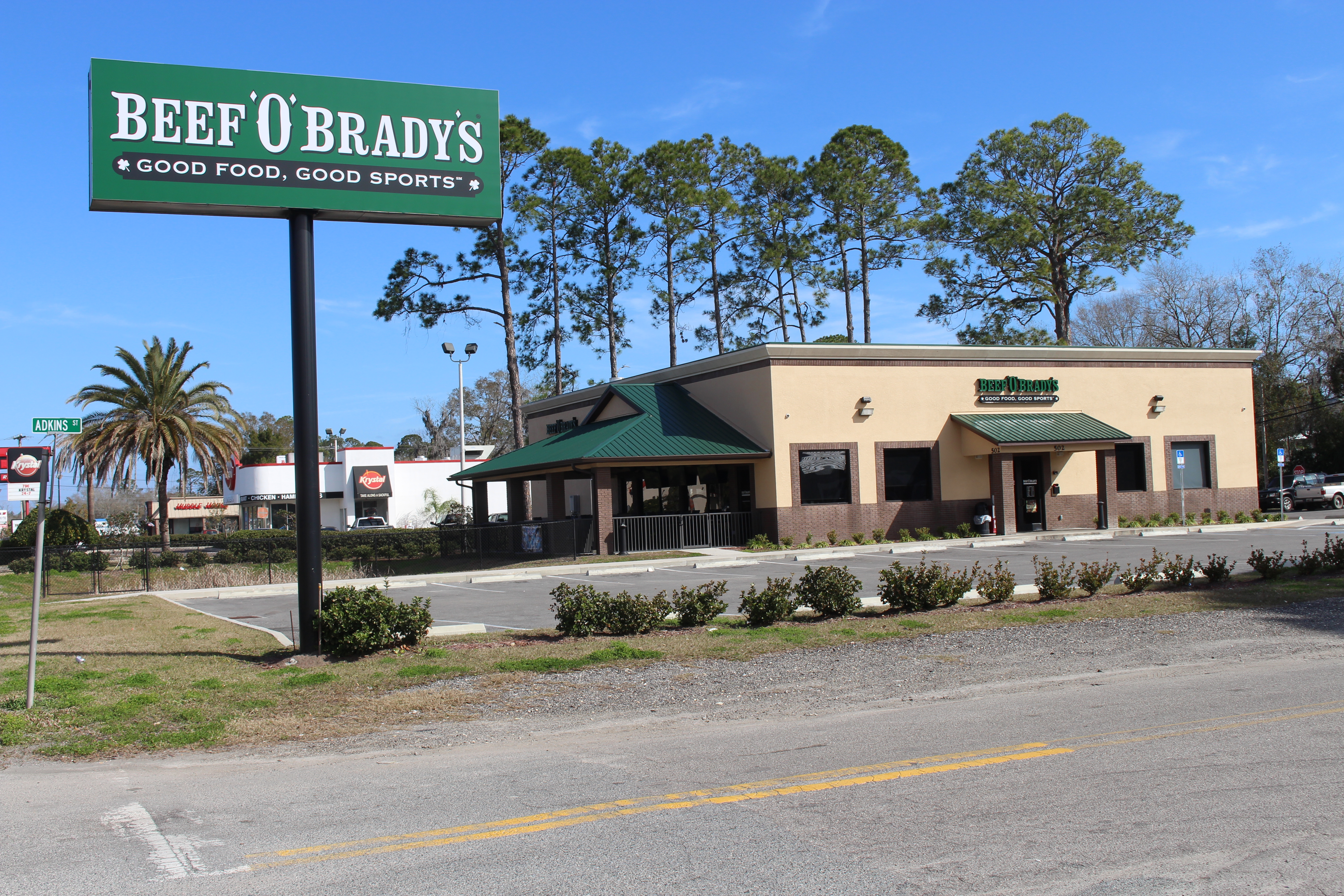 Beef O Brady's, Starke, Bradford County, Florida